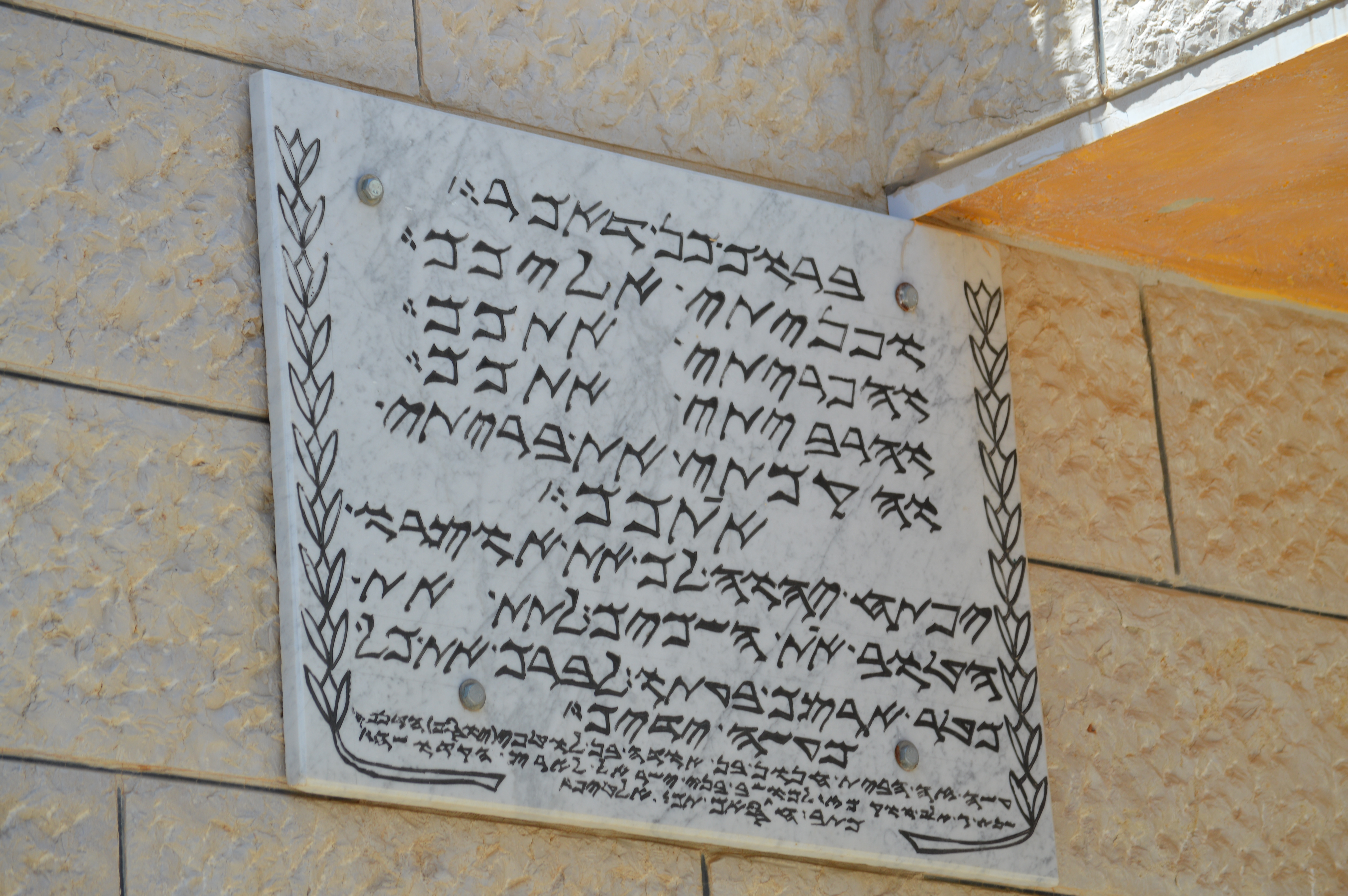 Samaritan Mezuzah at Kiryat Luza